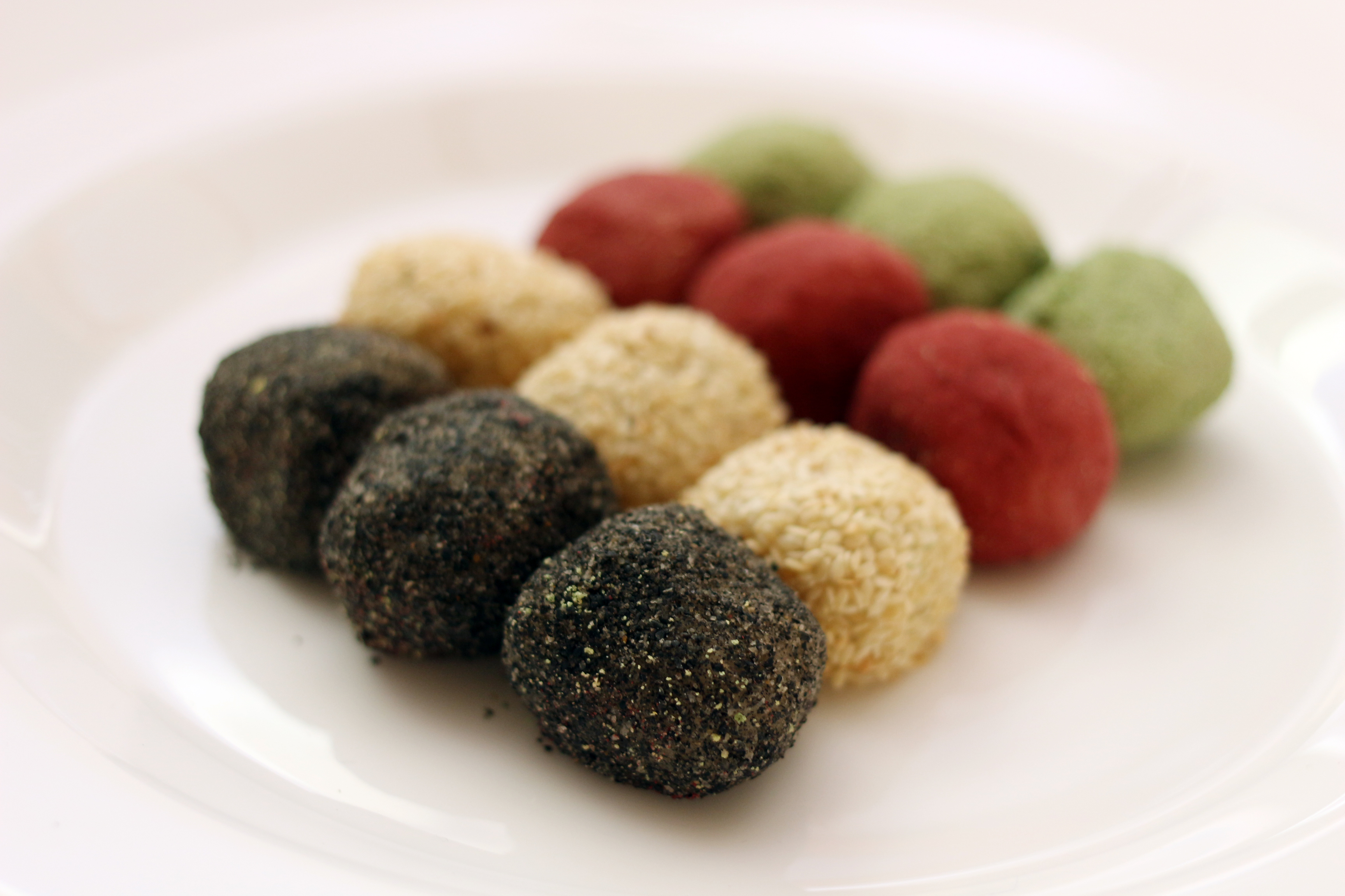 Rice ball cake, made by kneading the flour of glutinous rice or millet in the shape of a ball, steaming, and coating it with honey, meshed red beans, meshed mung beans, ground sesame seeds, etc.